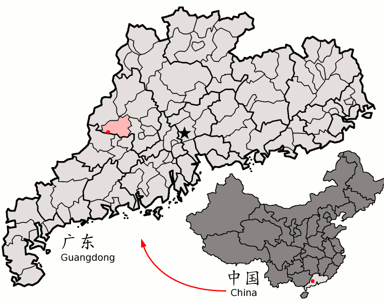 Location of Deqing within Guangdong province of China